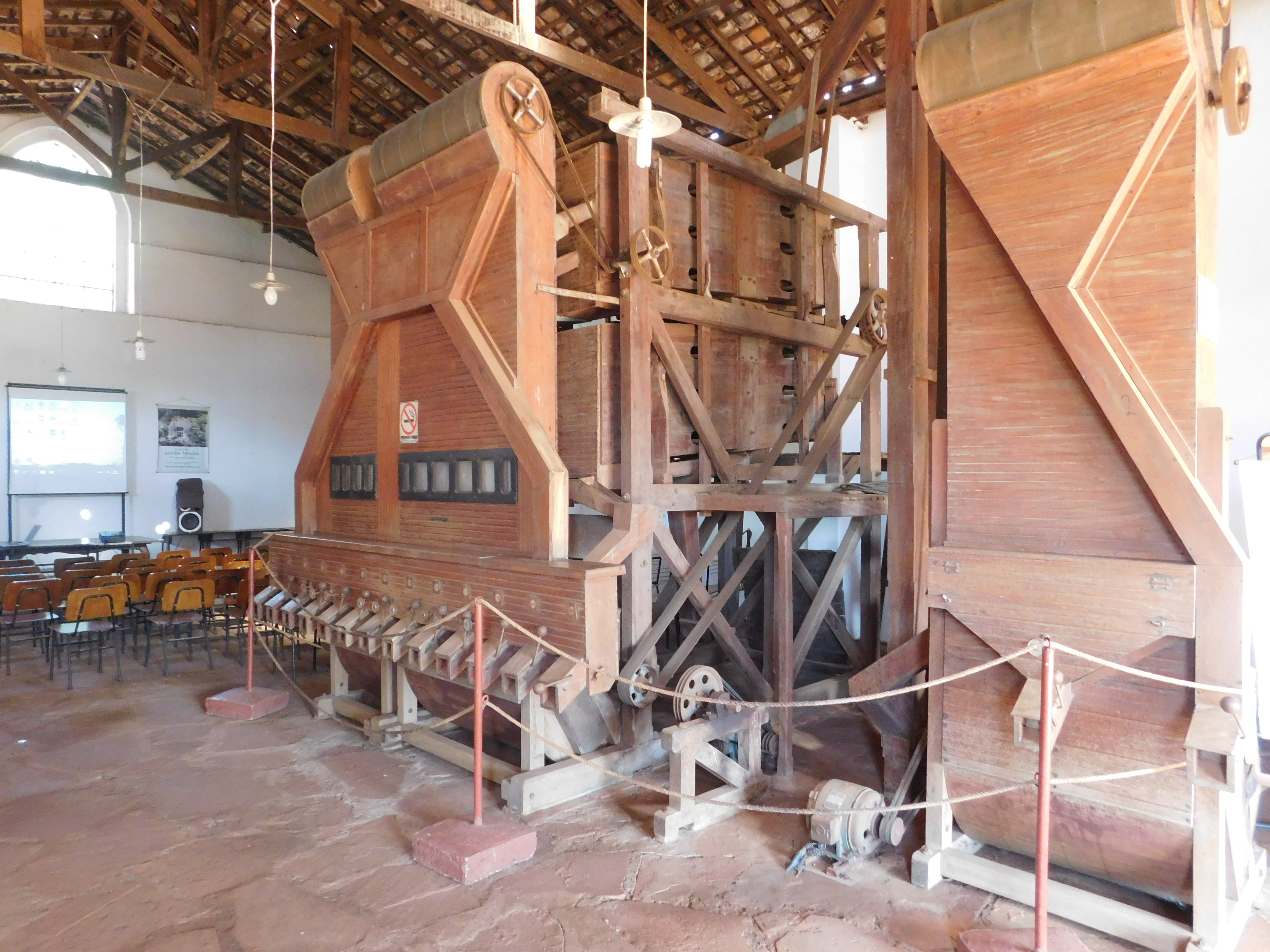 Santa Maria do Monjolinho is a famous ancient Brazilian coffee farm, located at the city of "São Carlos". Read more on its official website.